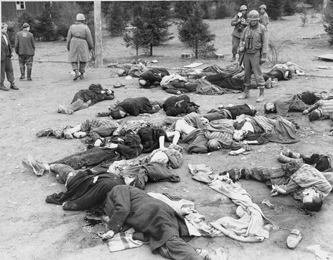 American soldiers view the bodies of prisoners that lie strewn on the ground in the newly liberated Ohrdruf concentration camp.